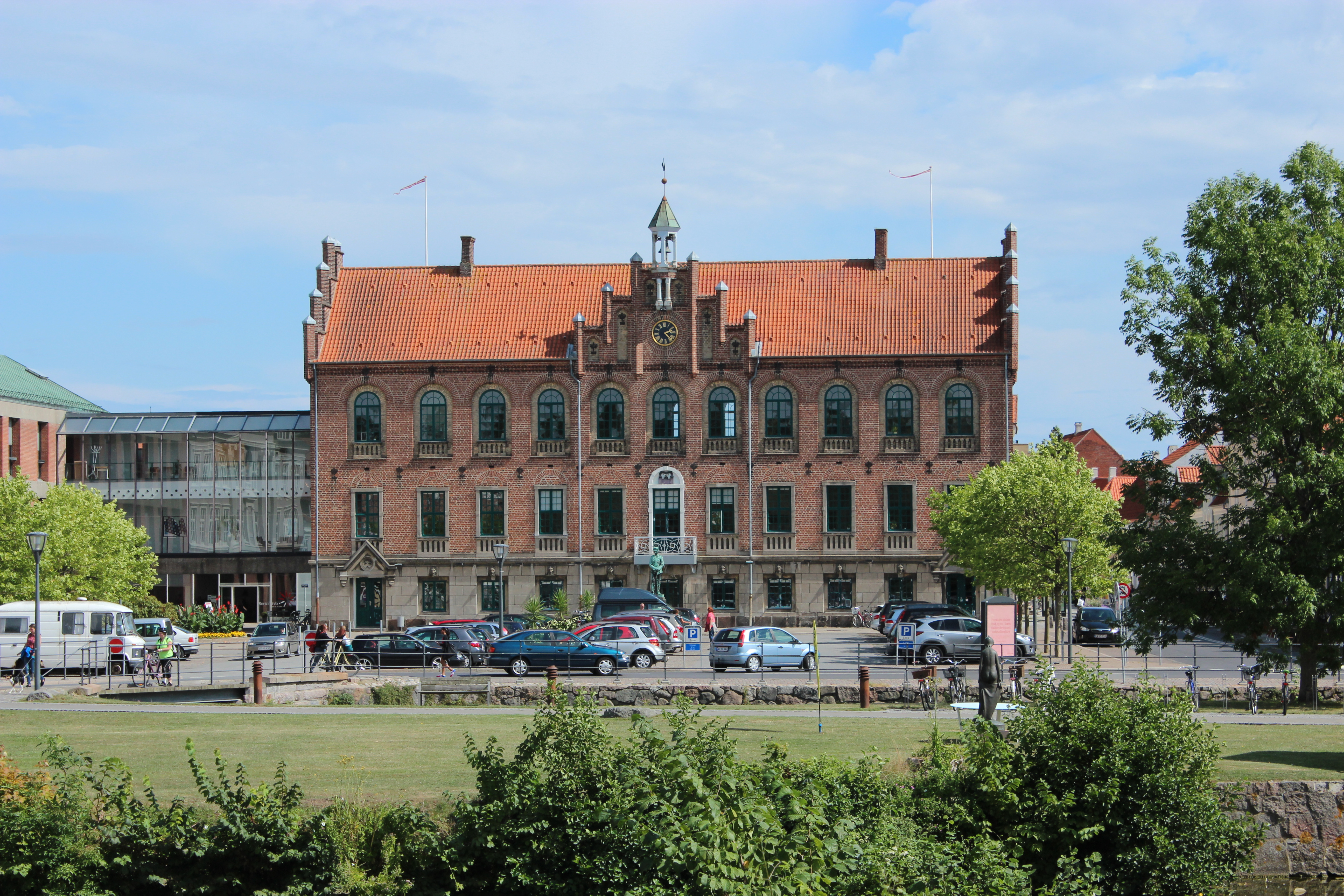 City Hall of Nyborg, Funen, Denmark. Build 1584.